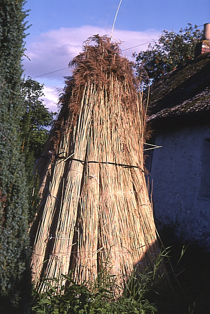 Reeds for Thatching The extensive reed beds in the estuary of the River Tay are harvested for thatching. These bundles are ready for shipment.